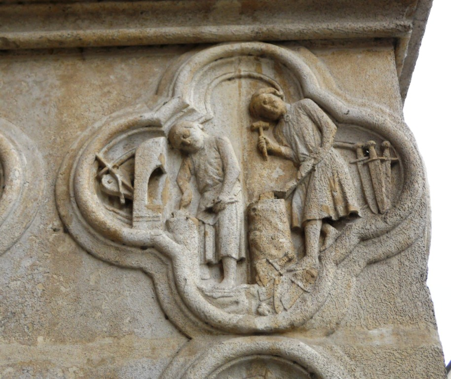 Ameins, blacksmiths